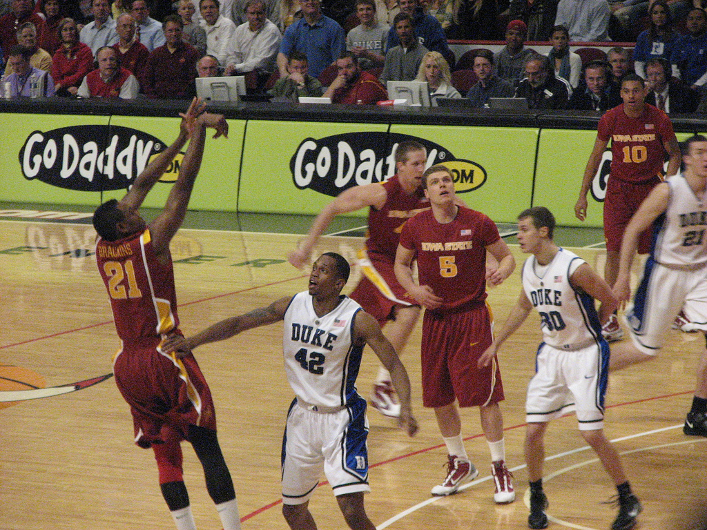 Craig Brackins of Iowa State Cyclones shoots over Lance Thomas of Duke.